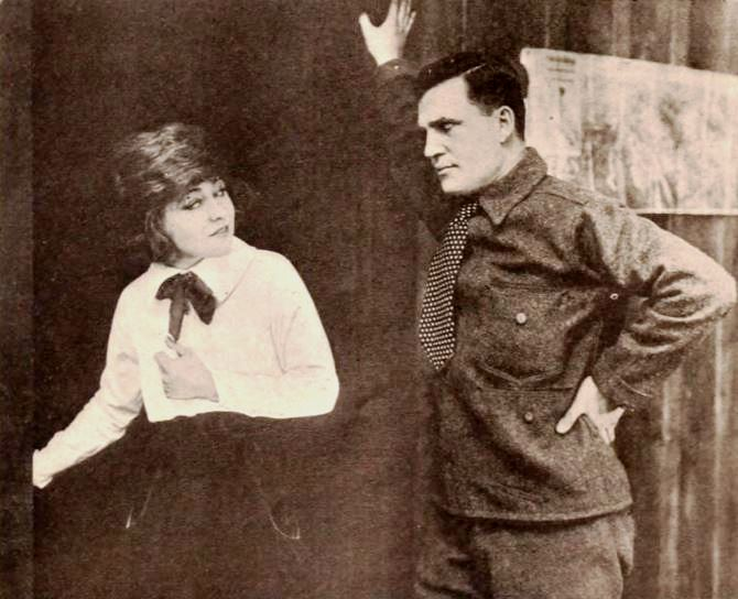 Still from the American comedy drama film The Man Hunt (1918), under its working title Silver Lining, with Ethel Clayton and Rockliffe Fellowes, on page 17 of the May 25, 1918 Exhibitors Herald.